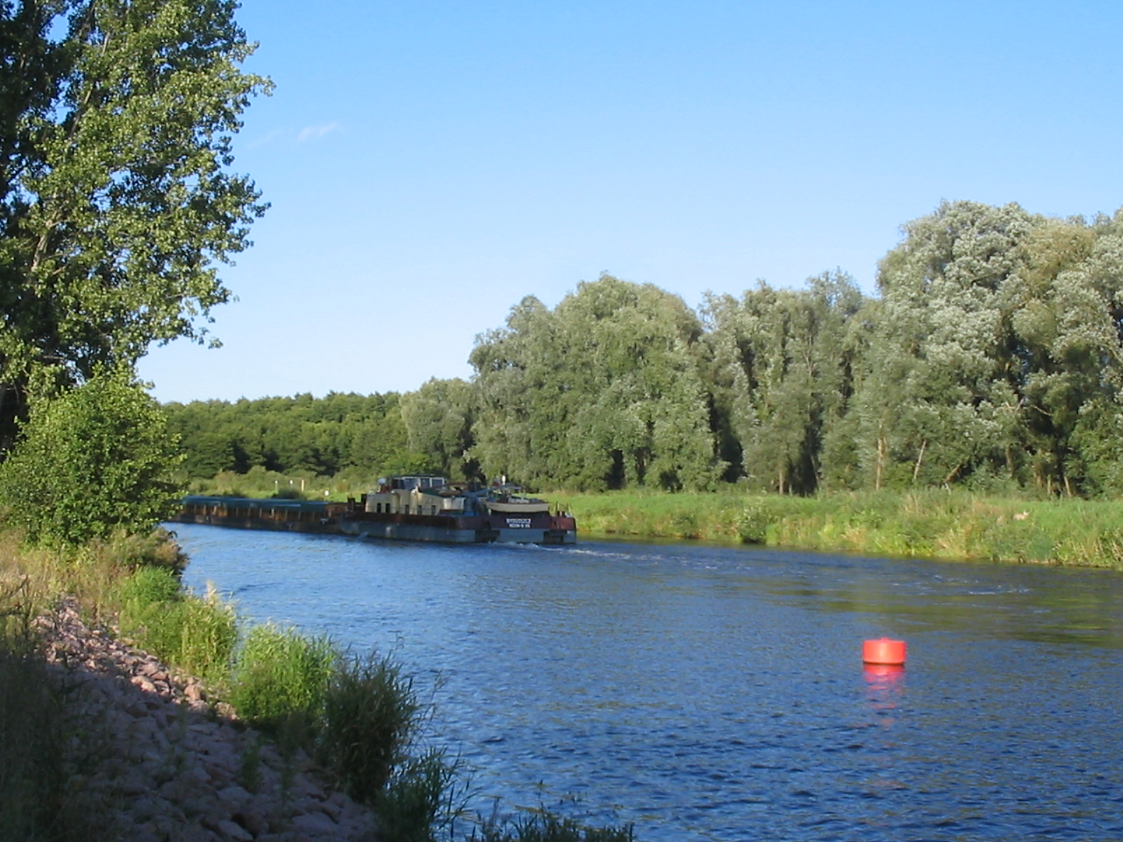 Havelcanal, near Berlin. Aug. 2005